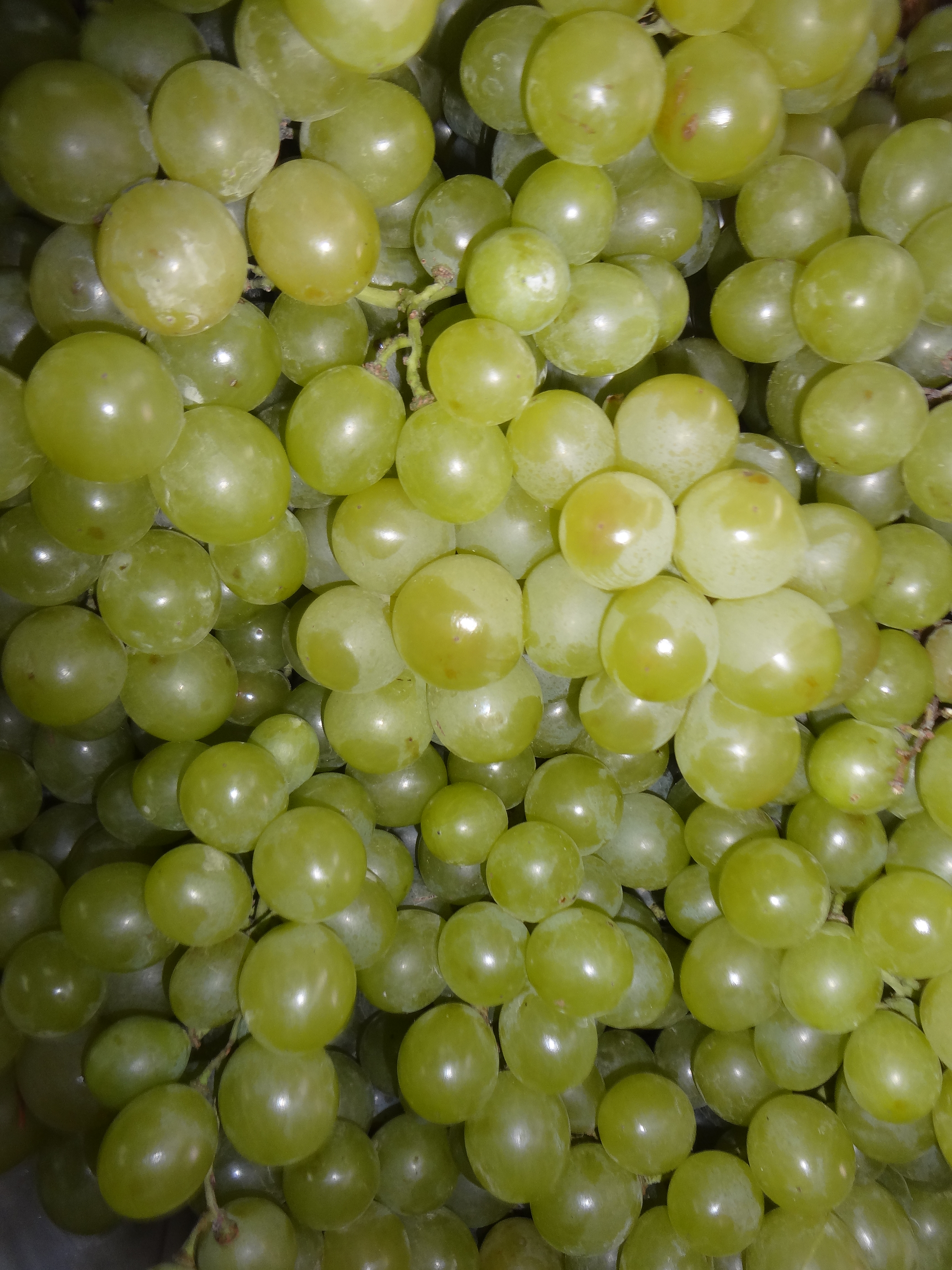 (Green Grapes) Photography by David Adam Kess